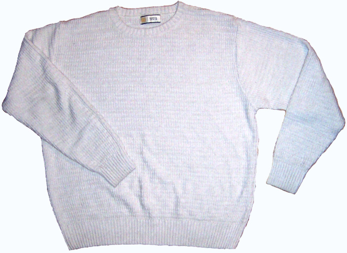 An alteration of File:Jumper sweater.jpg, showing a sweater from Marks & Spencer.